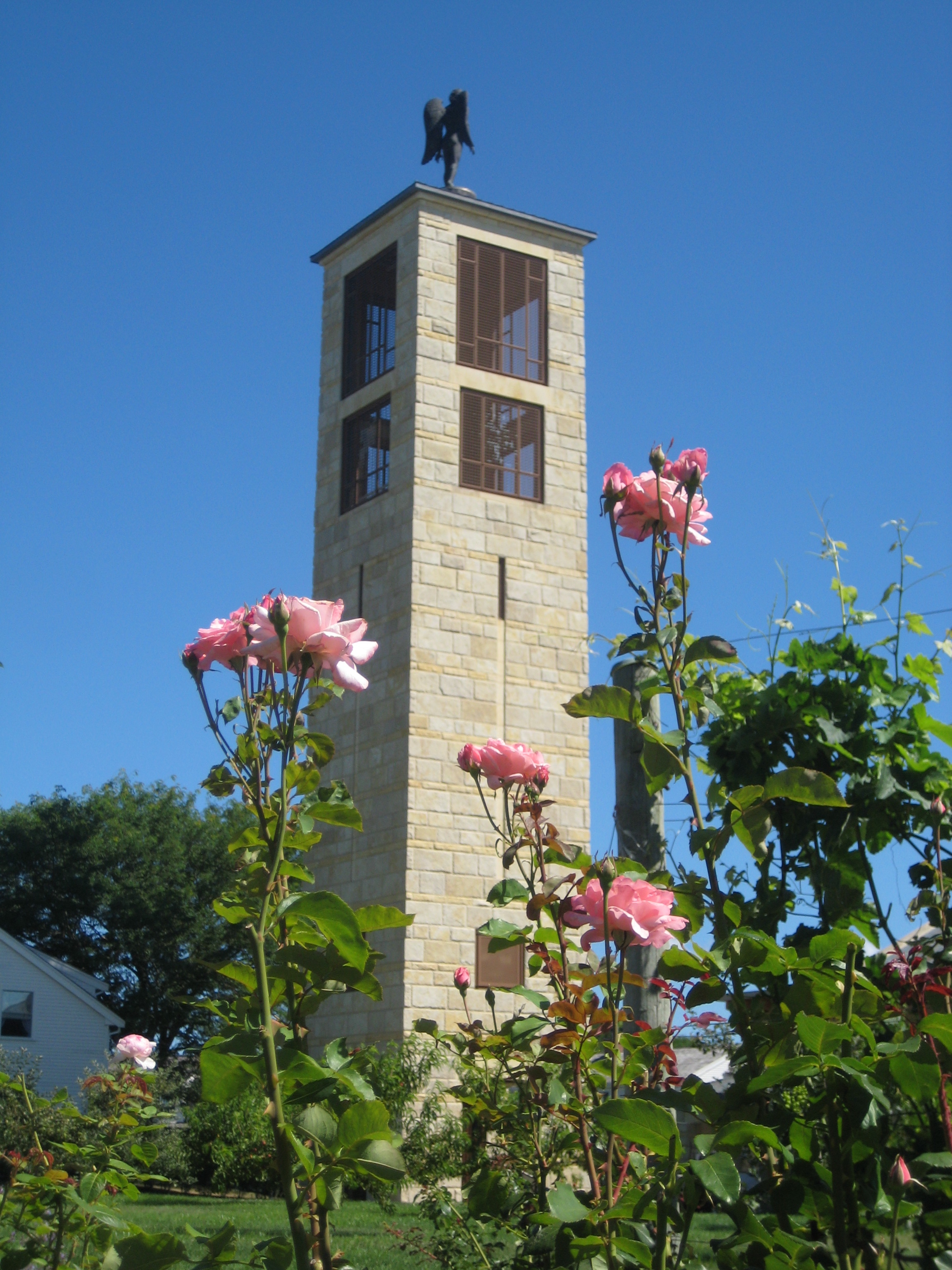 The 100-foot bell tower at the Church of the Transfiguration is home to a set of ten change-ringing bells, cast by the Whitechapel Bell Foundry in London, England. The bells ring out over the Community of Jesus and its environs in Orleans and Eastham, sounding forth the praises of God. The sculpture standing atop the bell tower is an angel, fashioned after the angels of the seven churches of the Book of Revelation. This “Angel of the Church” symbolizes the reality that the Lord and his angels watch over the worshiping Community and its church, and it challenges us to be witnesses of the celestial kingdom here on earth.